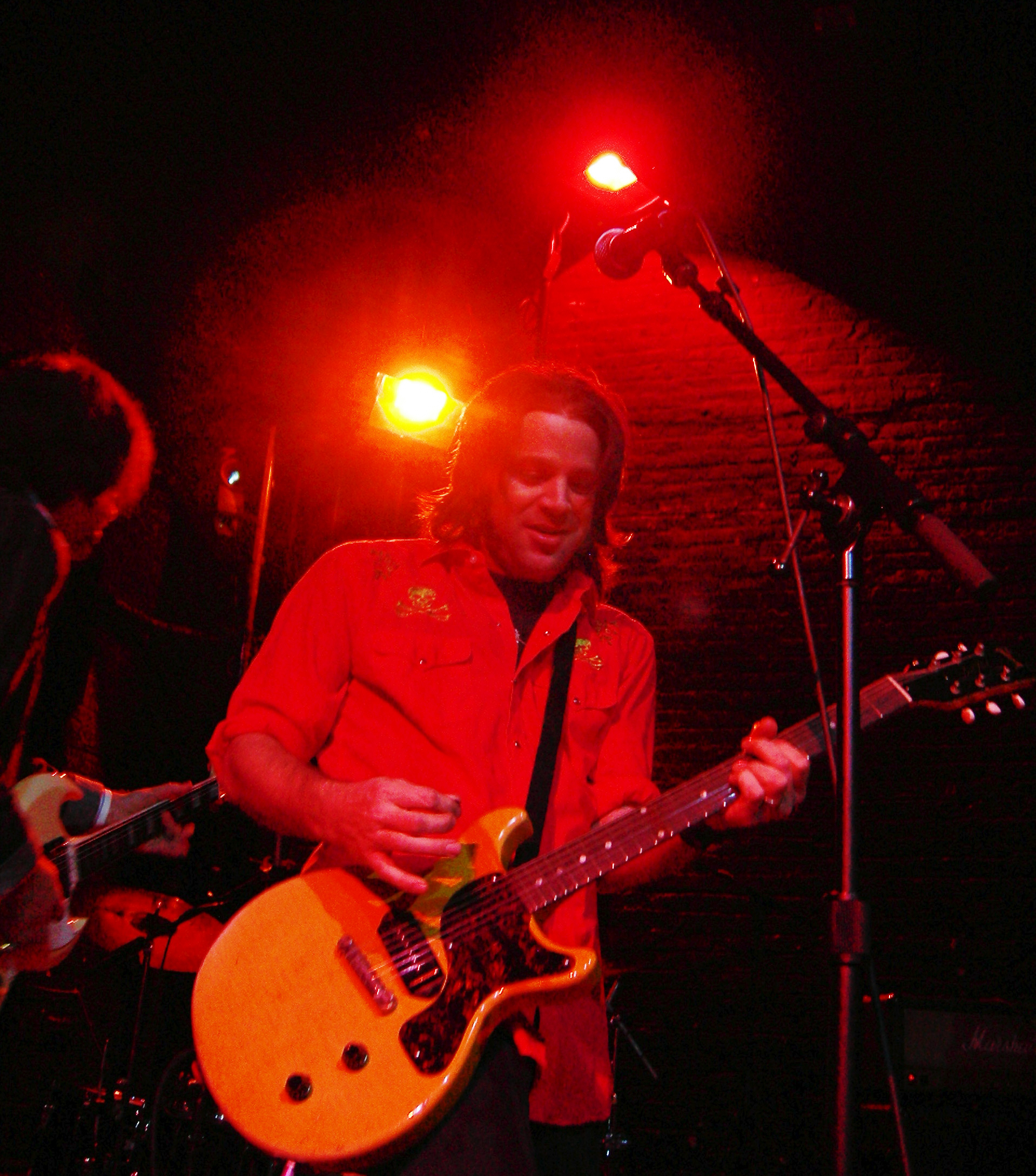 Guitarist Andrew McKeag of the band The Presidents of the United States of America playing in a "house band" at the tail end of the Moore 100 Open House Celebration, celebration of the 100th anniversary of the Moore Theatre, Seattle, Washington.